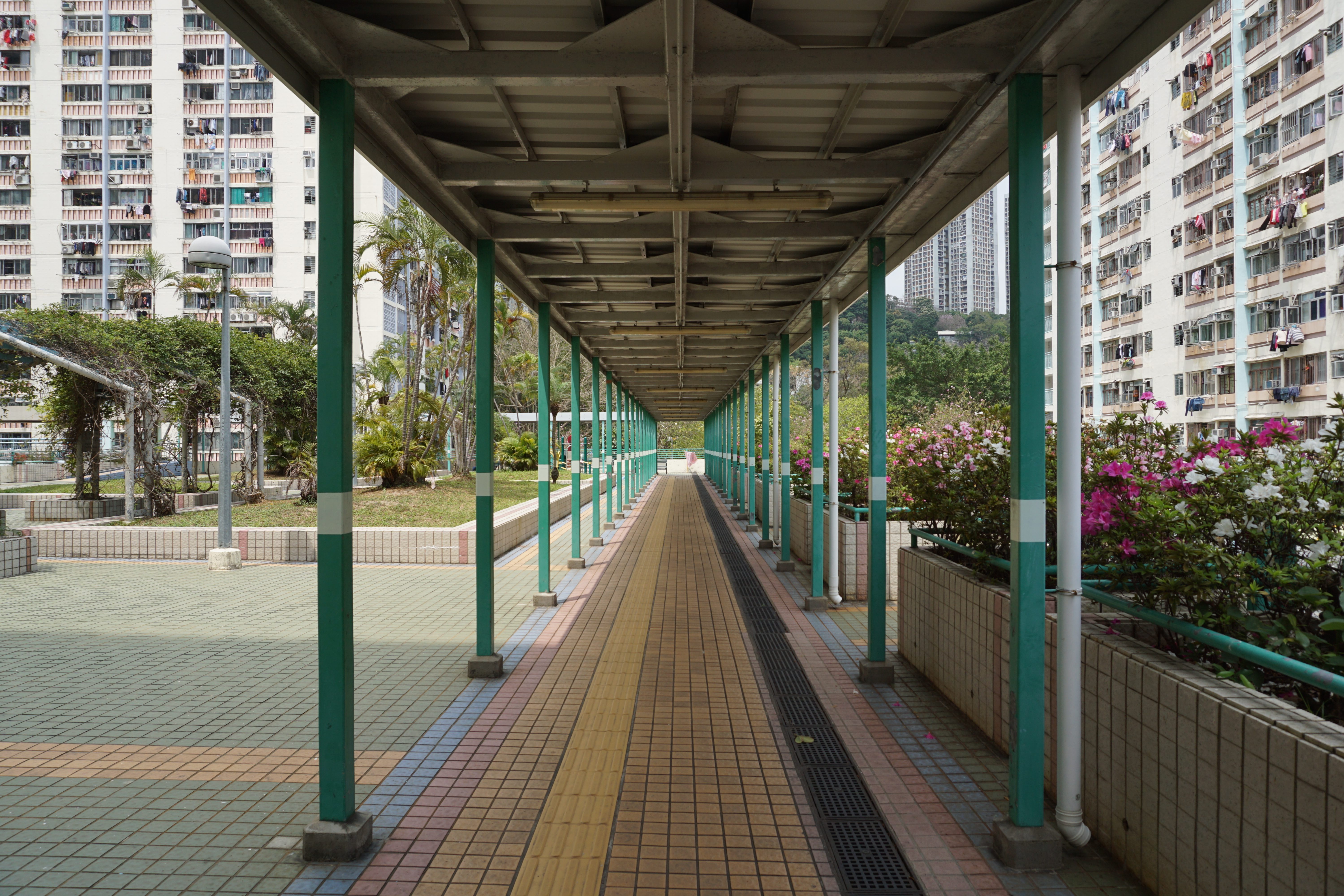 Wo Che Estate in Shatin, Hong Kong.